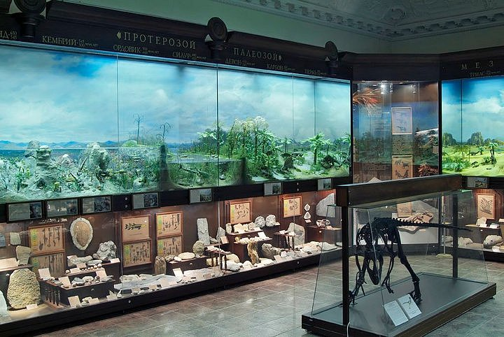 hall 8 of rusian state biological museum named after timiryazev